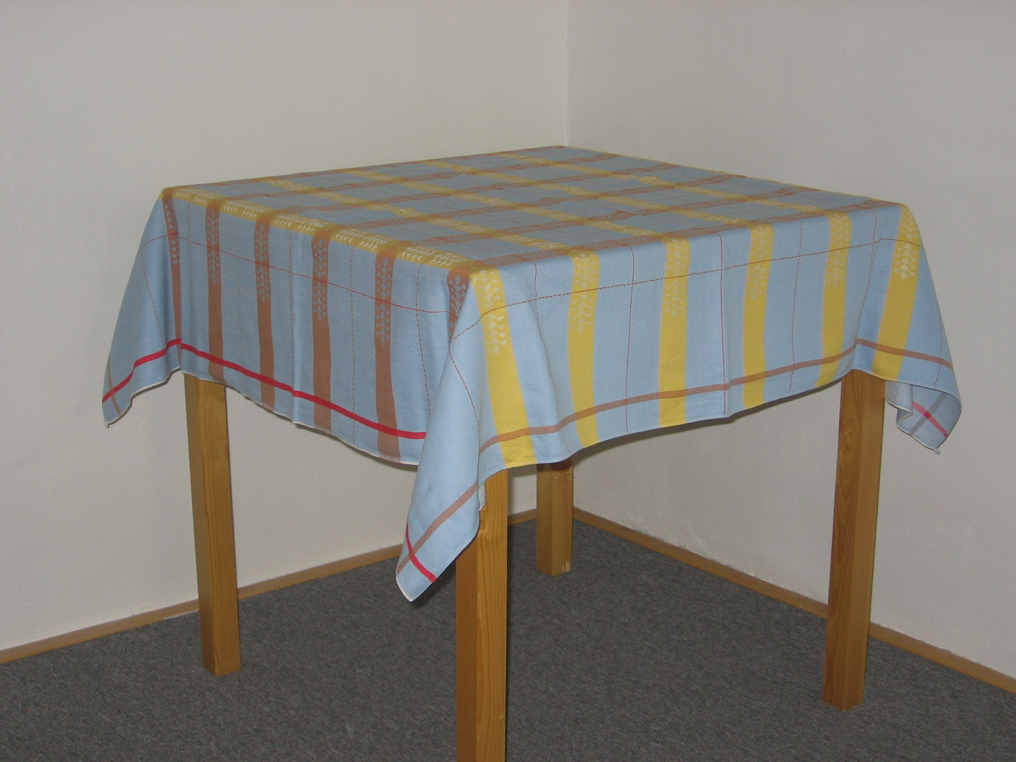 Tablecloth